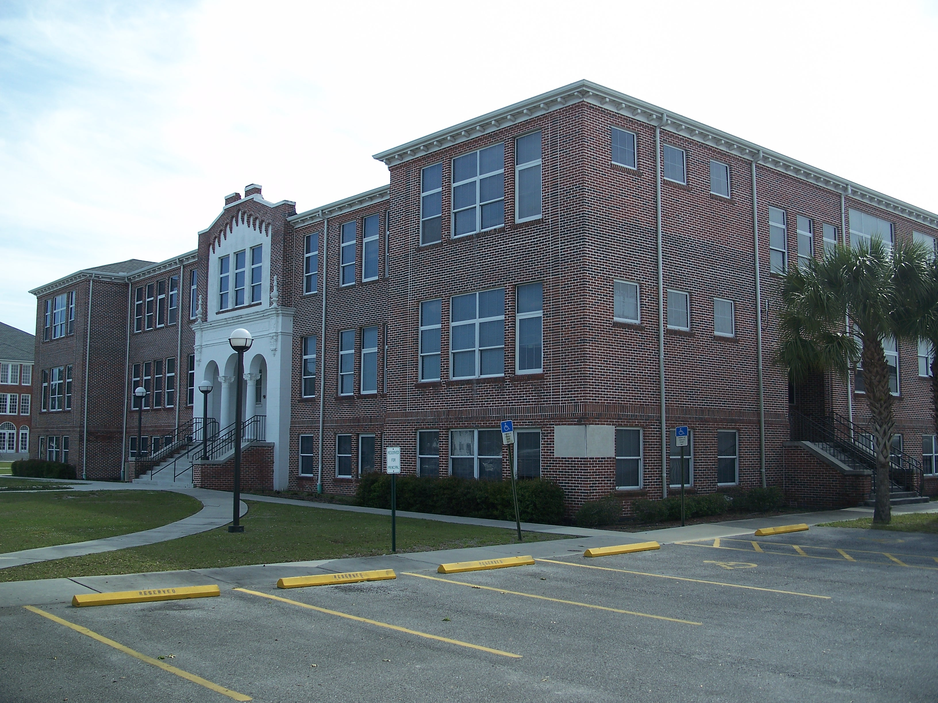 Okeechobee, Florida: Historic high school, listed in A Guide to Florida's Historic Architecture.